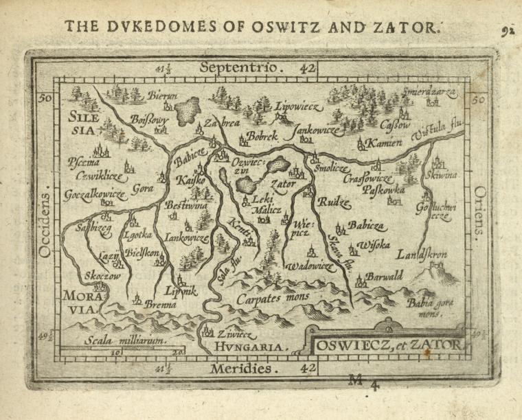 The Dukedomes of Oswitz and Zator. Lawrence H. Slaughter Collection of English maps, charts, globes, books and atlases . Abraham Ortelius his epitome of the theater of the worlde. Nowe latlye ... renewed and augmented ... / by Micheal Coignet, mathematitian of Antwarpe.